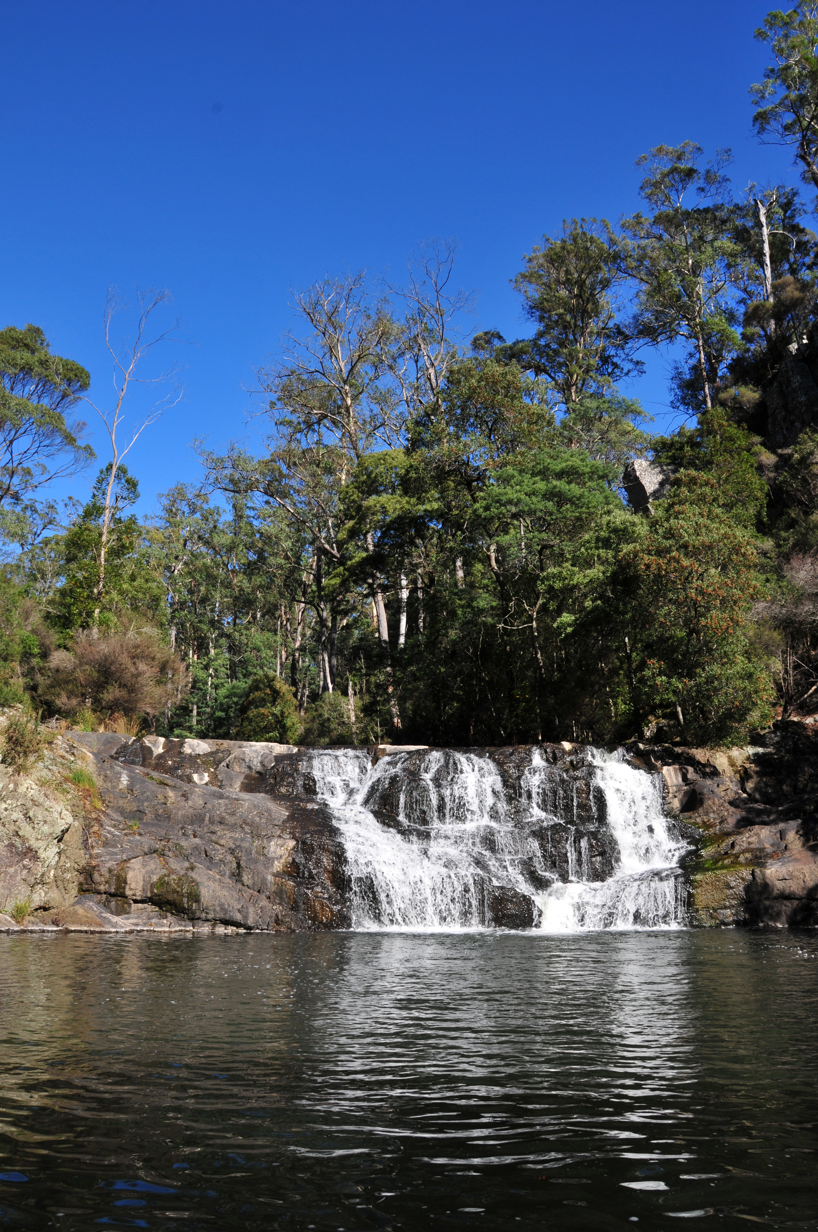 Falls on Lobster Rivulet, near Chudleigh, Tasmania, Australia